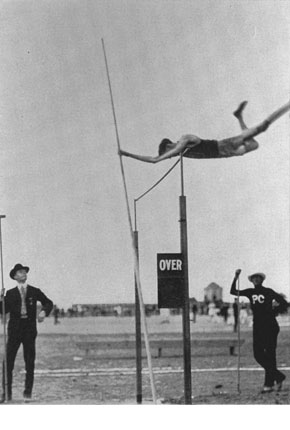 Pole vault event during 1904 Summer Olympics